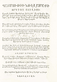 Armenian translation of Les Aventures de Télémaque, vol. 2